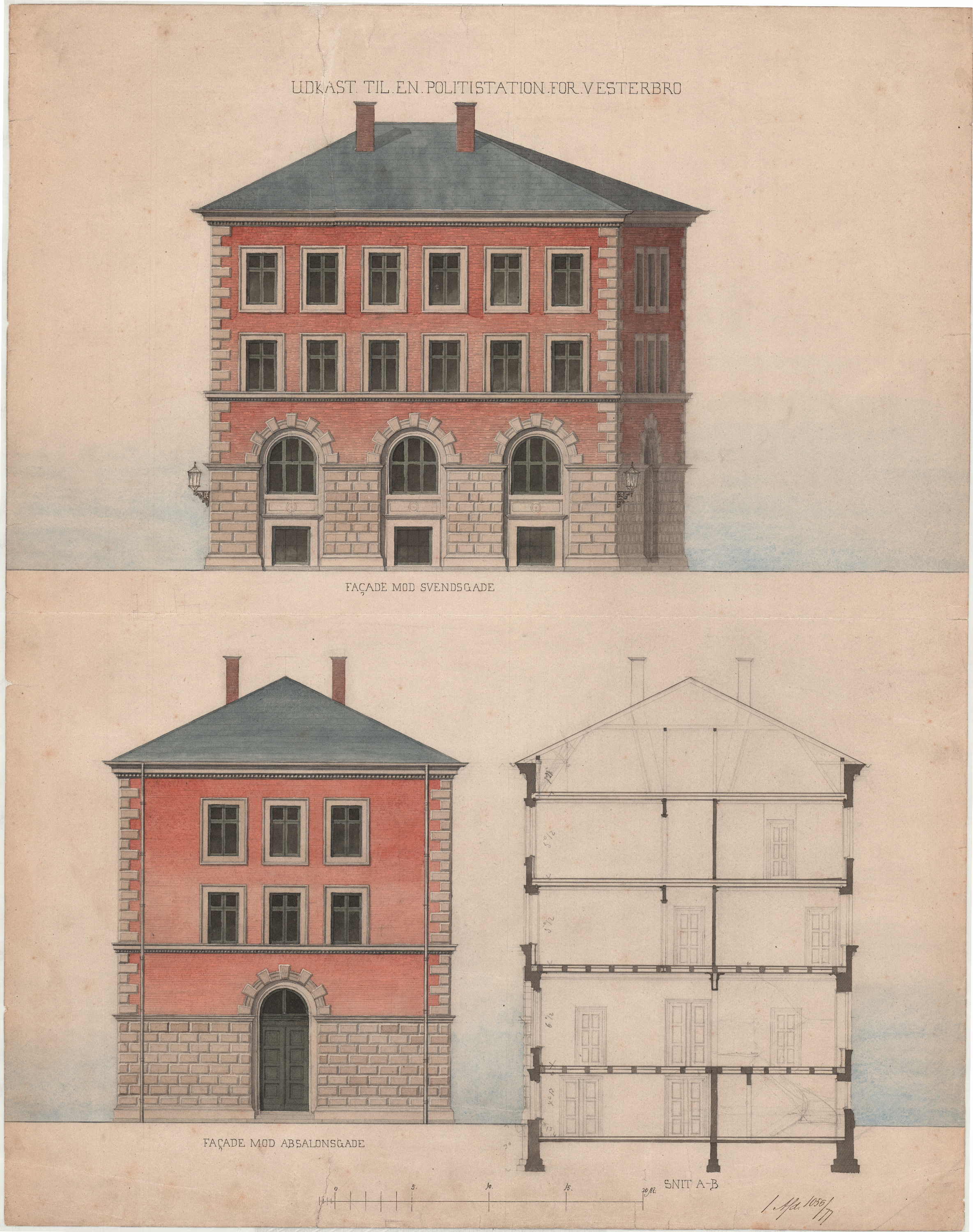 Svendsgade, Svendsgades Politi- og Brandstation in Copenhagen, Denmark